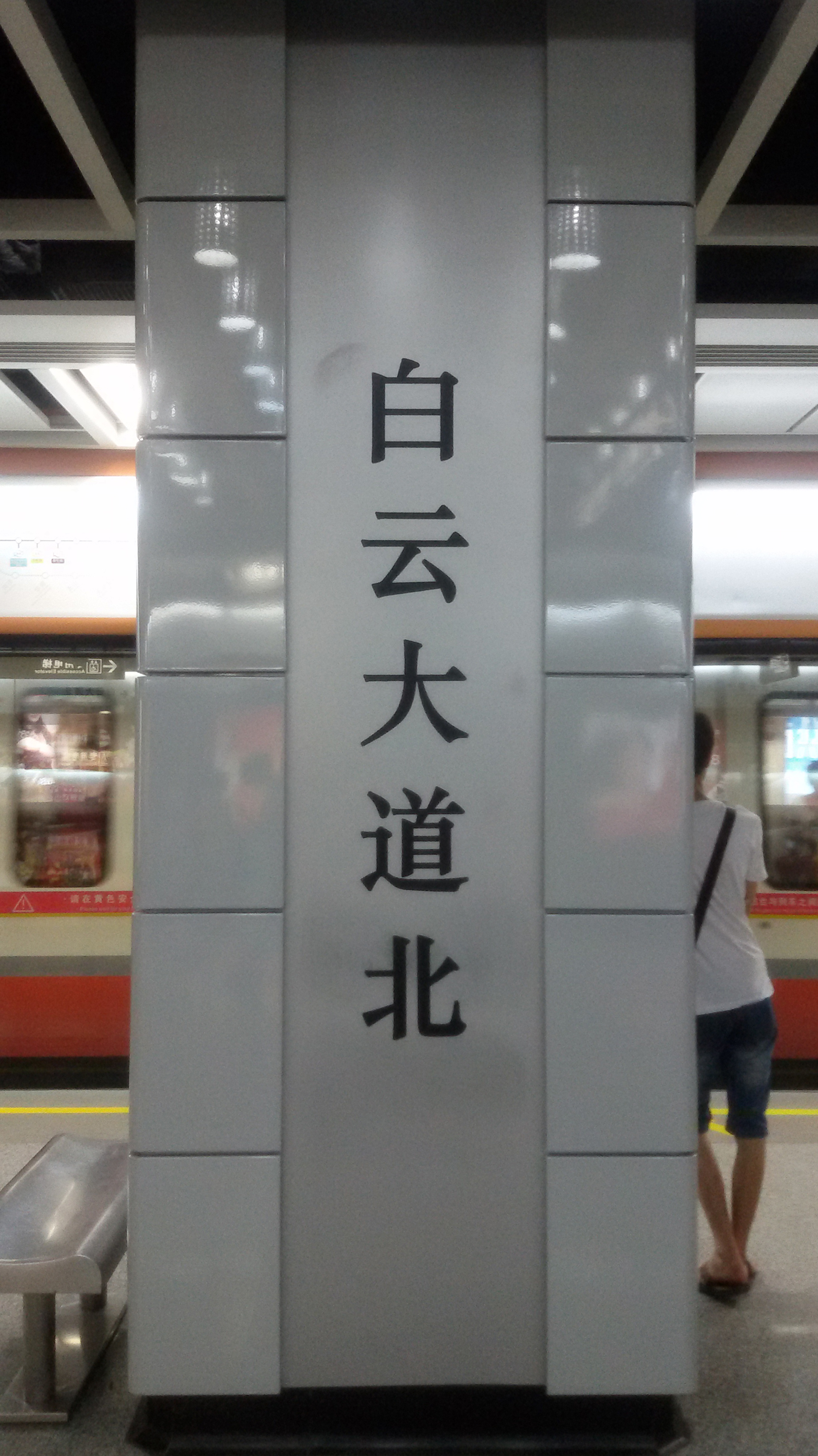 WORD on PILLAR for BaiyunDadaoBei Station in Guangzhou Metro.